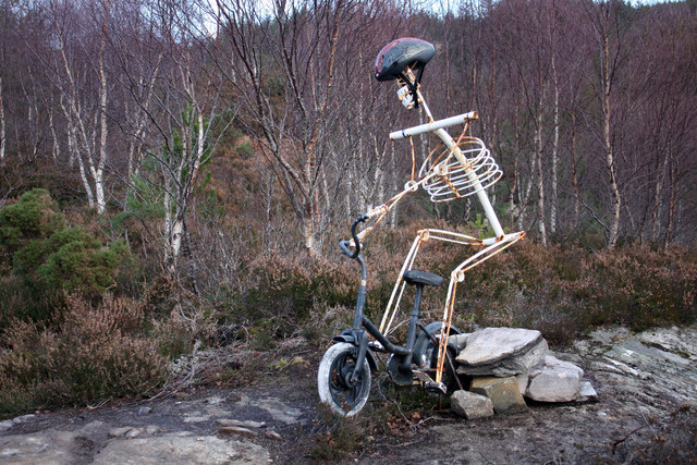 Sculpture of Skeleton Biker Beside a mountain bike course used in the Strathpuffer 24 hour race.